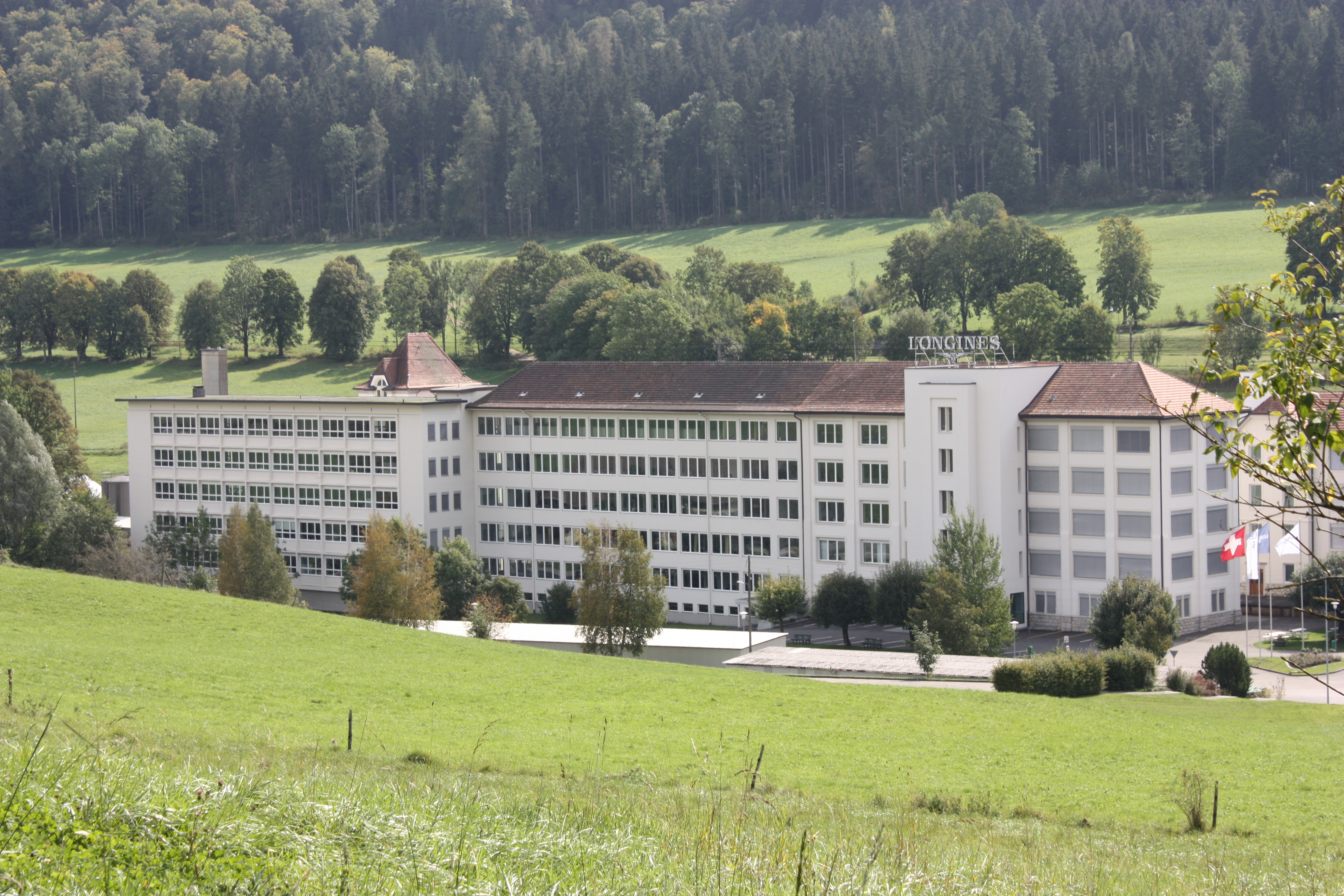 PBC - KGS-Nr. 9282 Longines factory, Saint Imier, Switzerland.